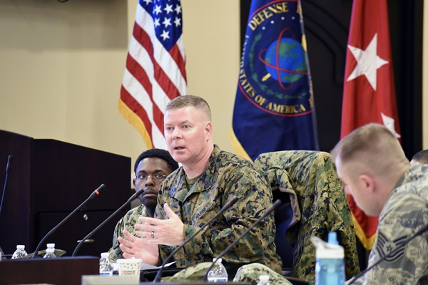 The DIA Command Senior Enlisted Leader Master Gunnery Sgt. Scott Stalker, center, emphasizes readiness across the workforce during an off-site for enlisted military service members, Dec. 18, at Joint Base Andrews, Maryland.